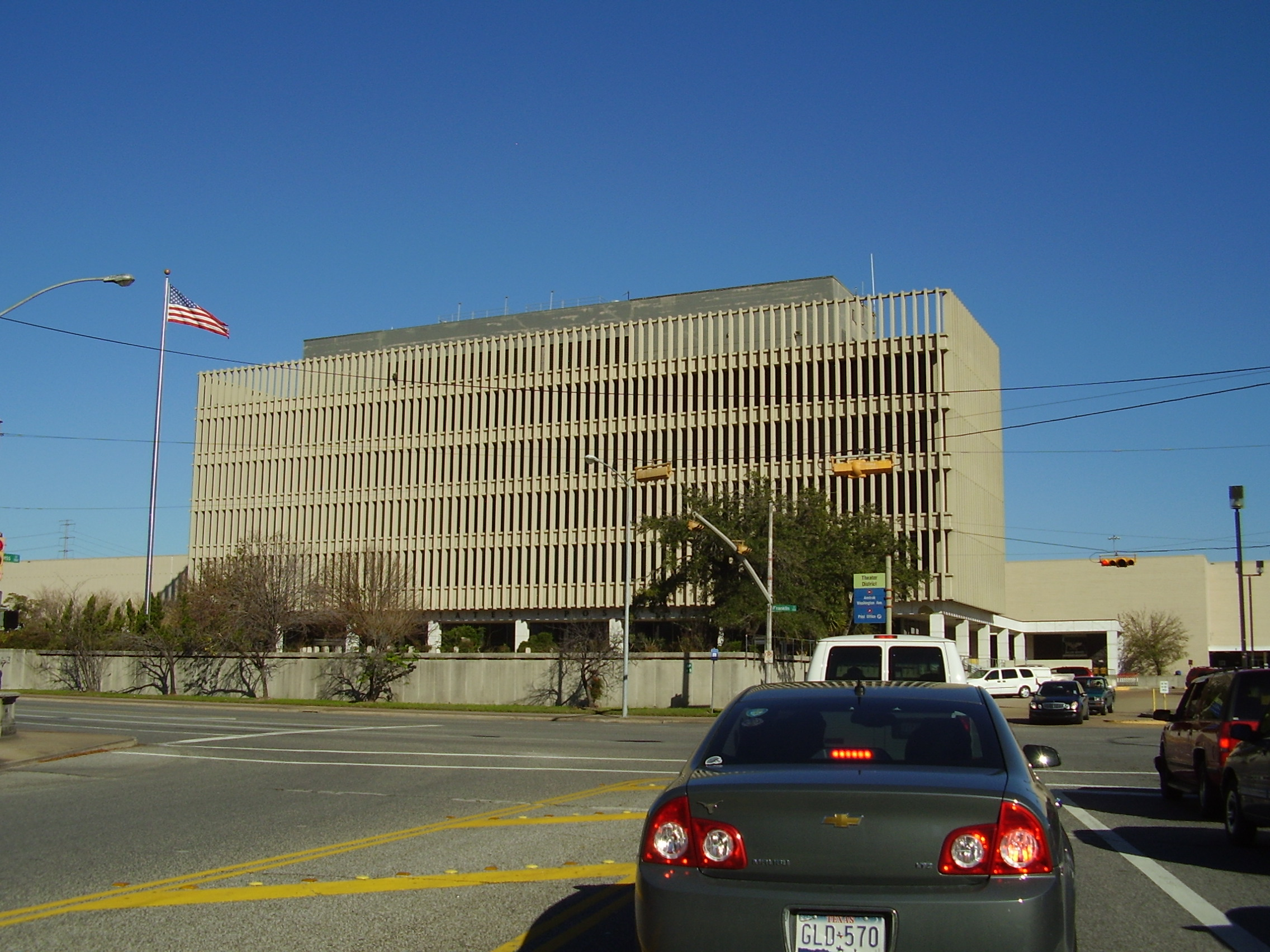 Decommissioned Barbara Jordan Post Office - Downtown Houston